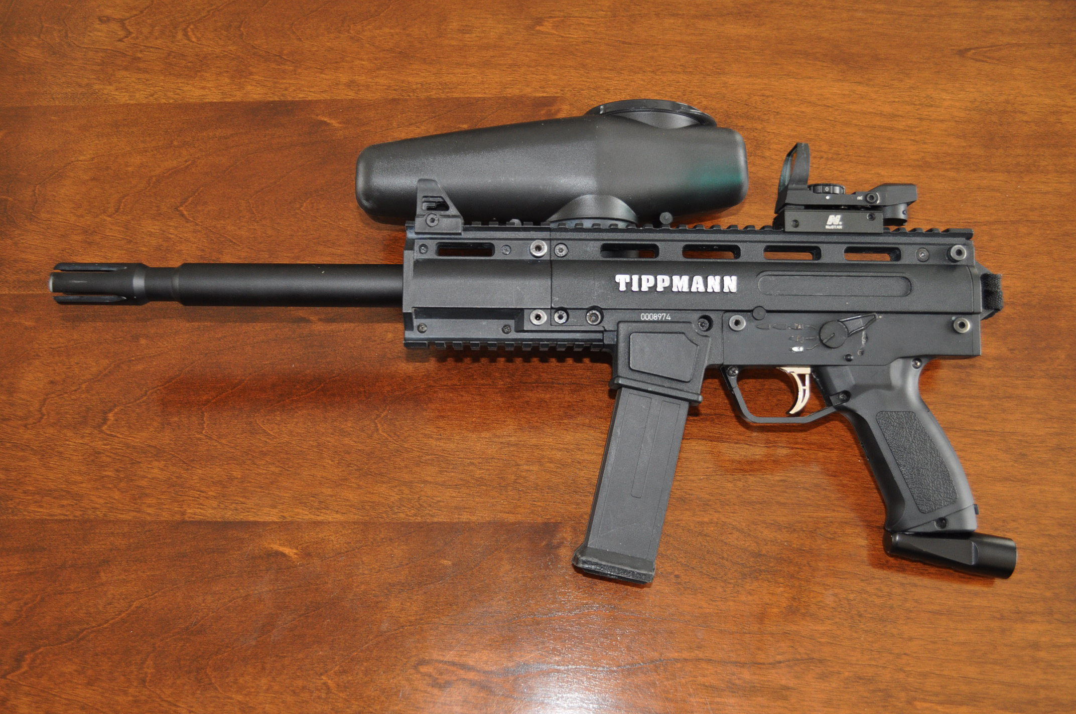 paintball gun